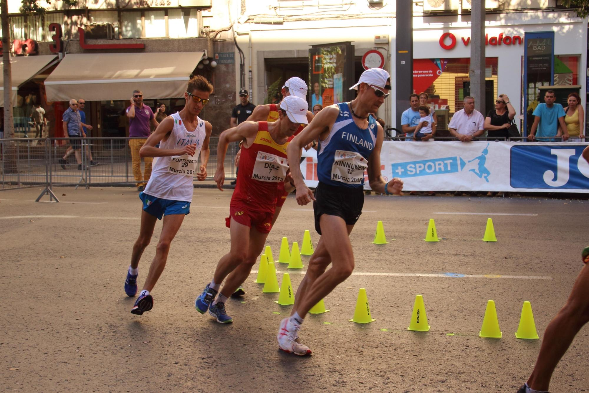 7-José Ignacio Díaz (ESP), 12-Jarkko Kinnunen (FIN) y 27-Francesco Fortunato (ITA) in the 11th European Cup Race Walking Murcia ESP 17 May 2015